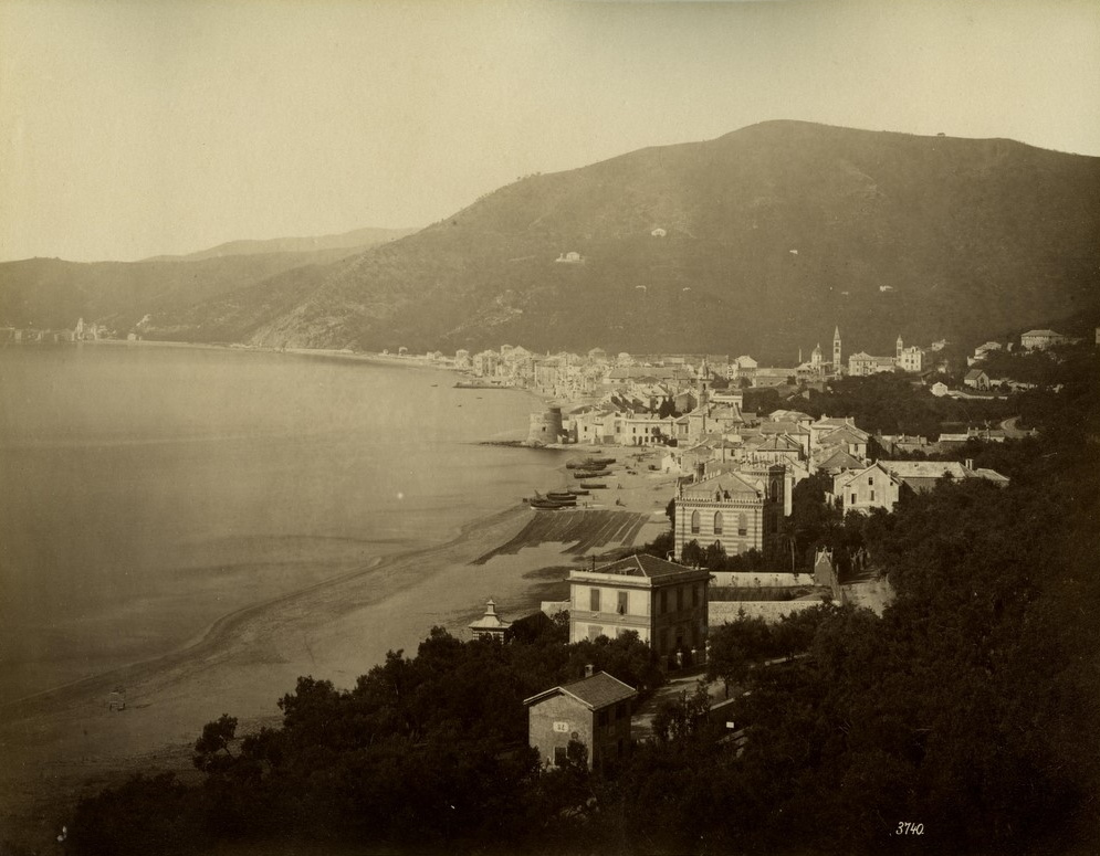 Alfred Noack (1833-1895) - "Alassio. View". Catalogue # 3740.